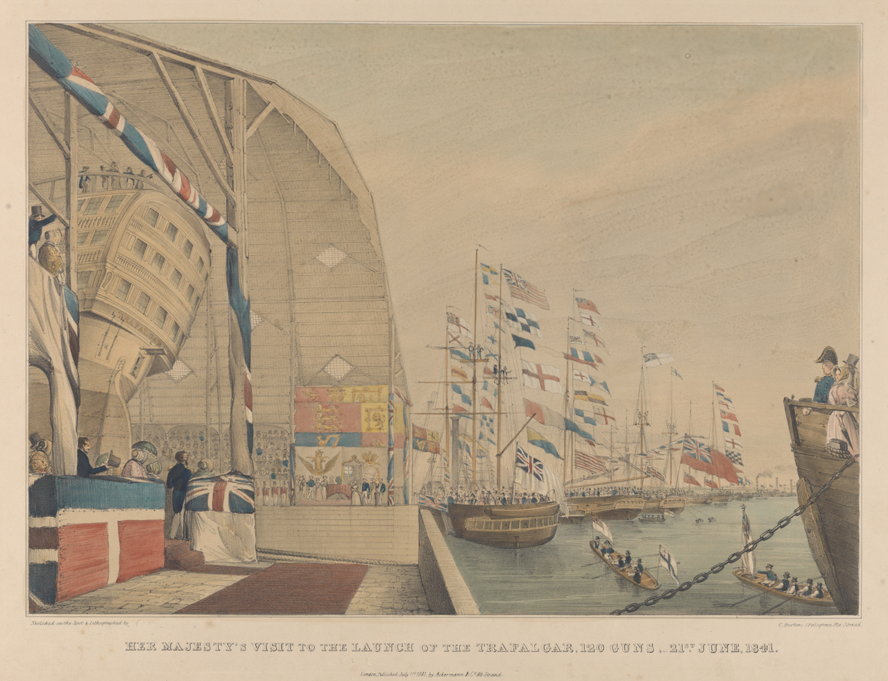 Her Majesty's Visit to the Launch of the Trafalgar, 120 Guns, 21st June 1841 Hand-coloured. Her Majesty's Visit to the Launch of the Trafalgar, 120 Guns, 21st June 1841